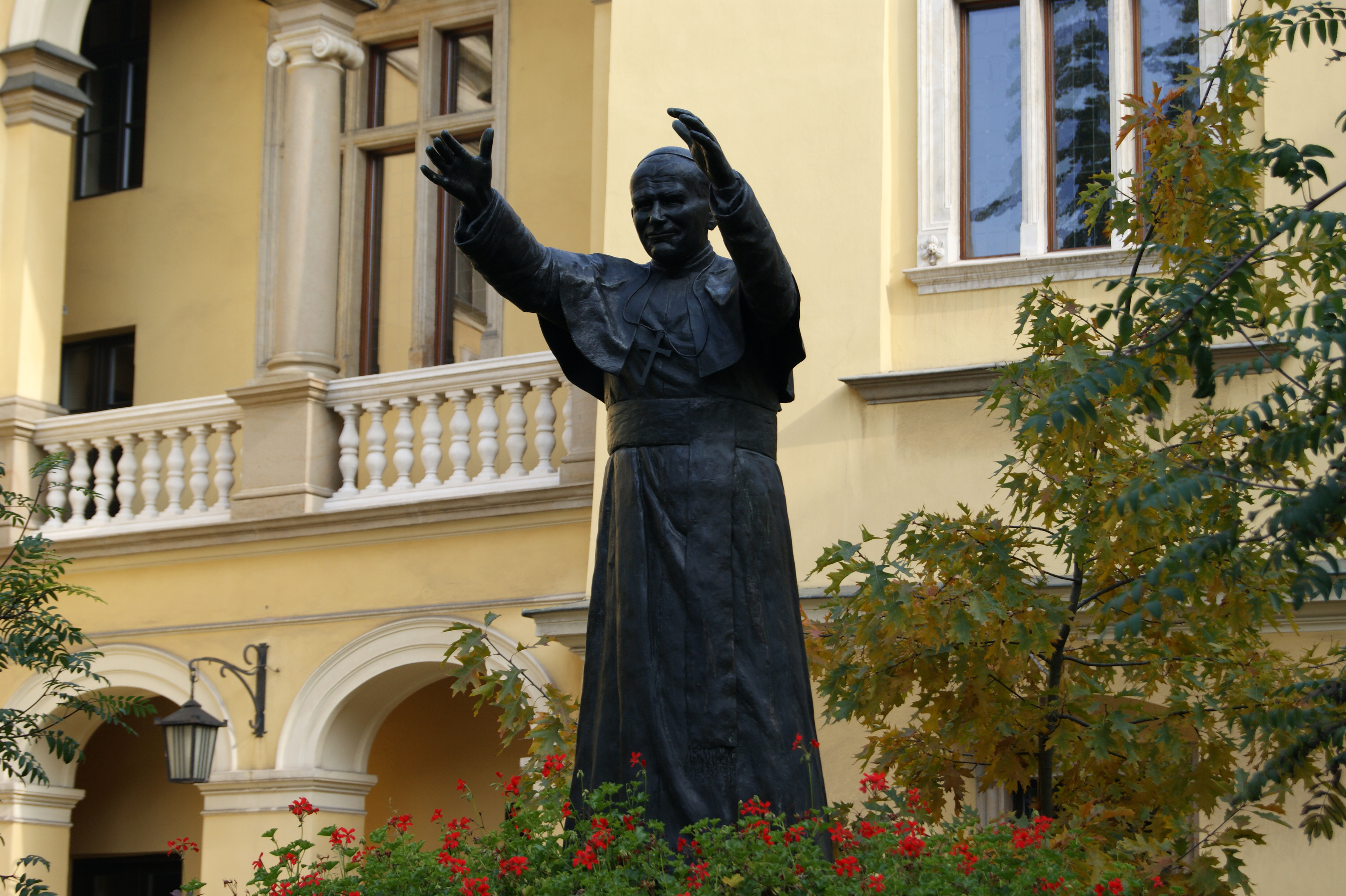 Pope John Paul II monument,Krakow Archbishop's Palace courtyard, 3 Franciszkanska street,Old Town, Krakow, Poland